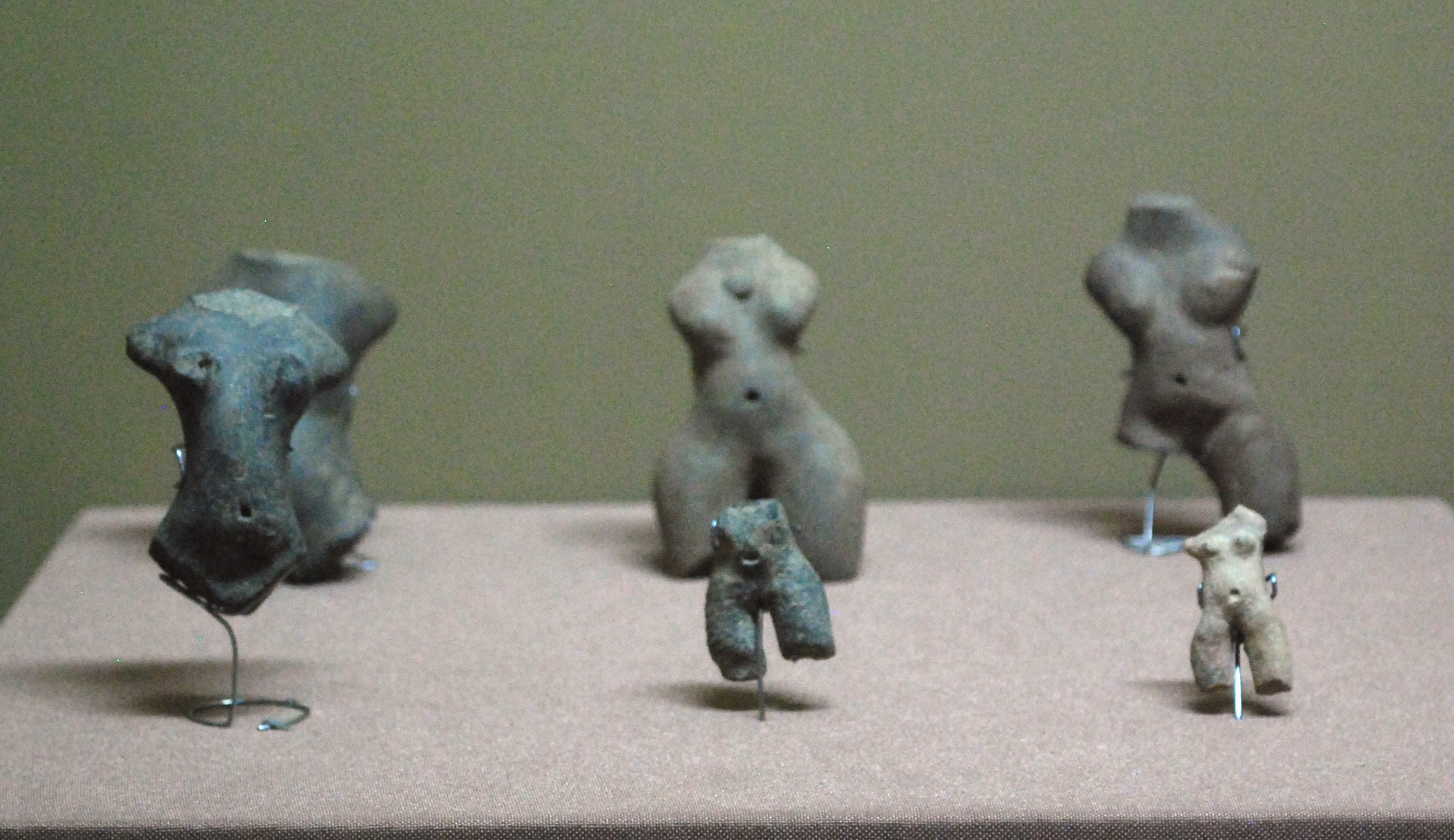 Ceramic figures dating from 1700 to 1300 BCE from Paseo de la Amada, Mazatán, Chiapas on display at the Regional Museum of Tuxtla Gutierrez, Chiapas, Mexico